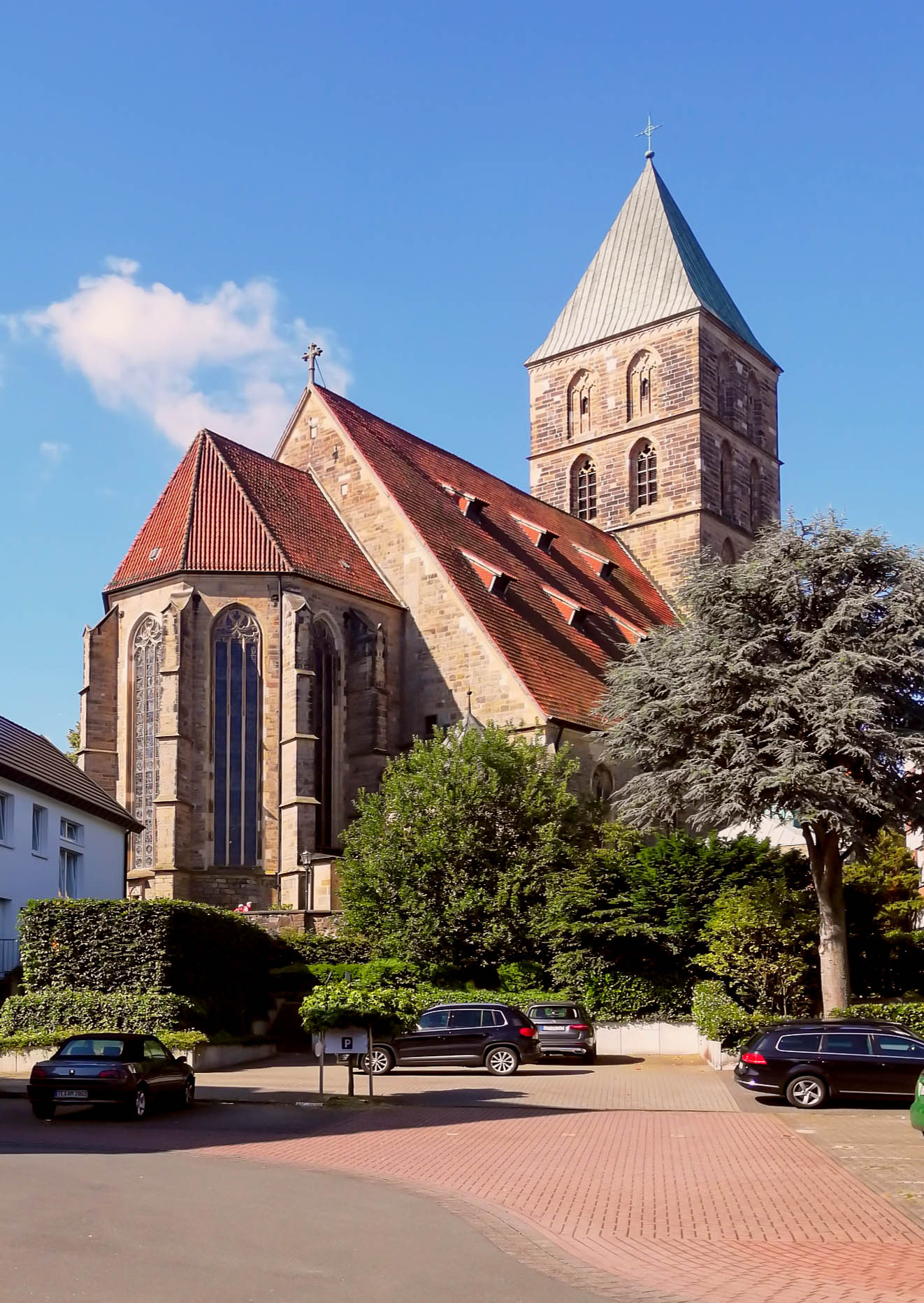 St. Dionysius (Rheine) - Blick von Nord-Osten